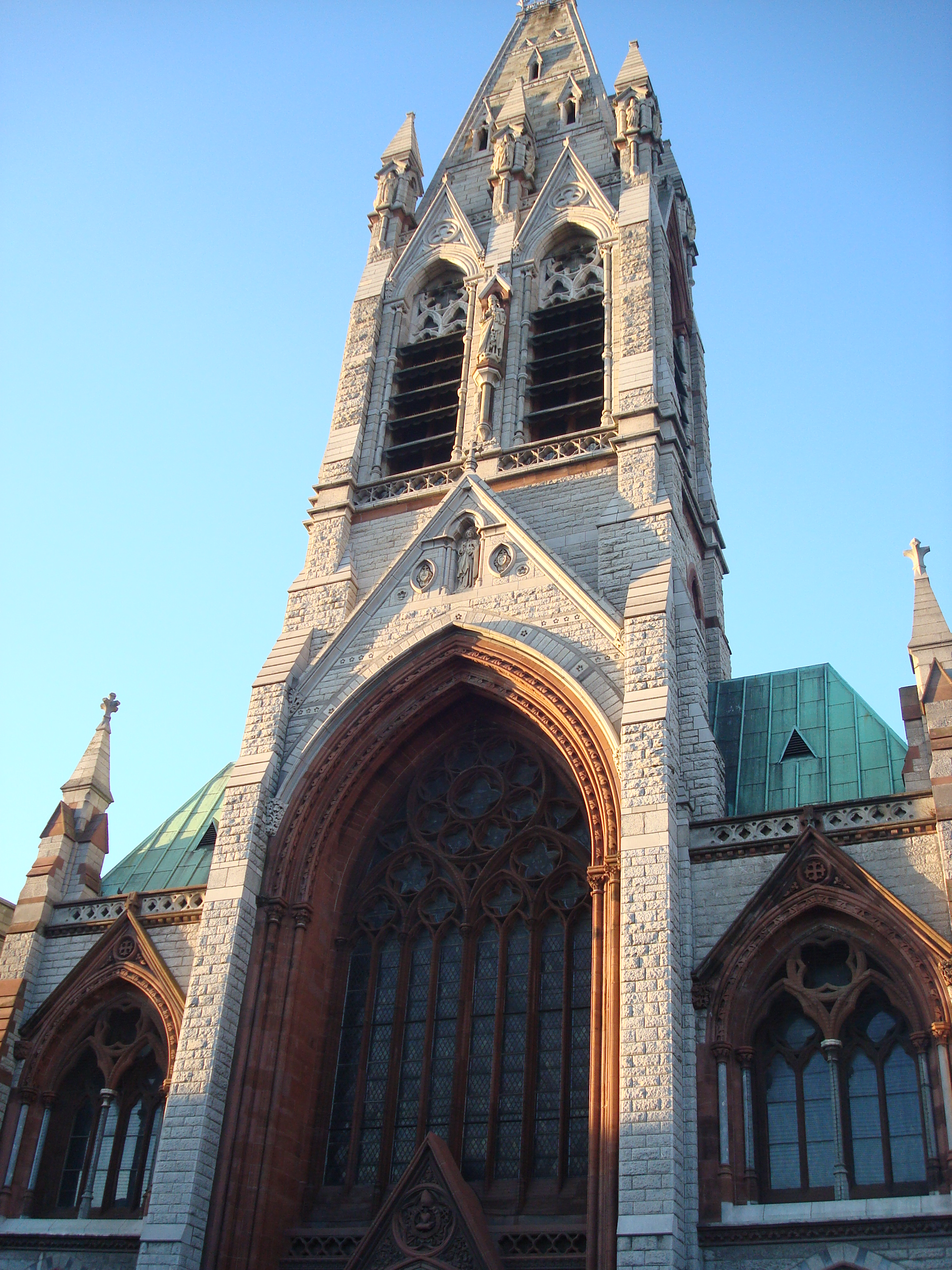 St. Augustine and St. John Catholic Church, Thomas Street, Dublin, Ireland. This picture shows the Tower with the statues. The tower is an impressive 200 feet tall.